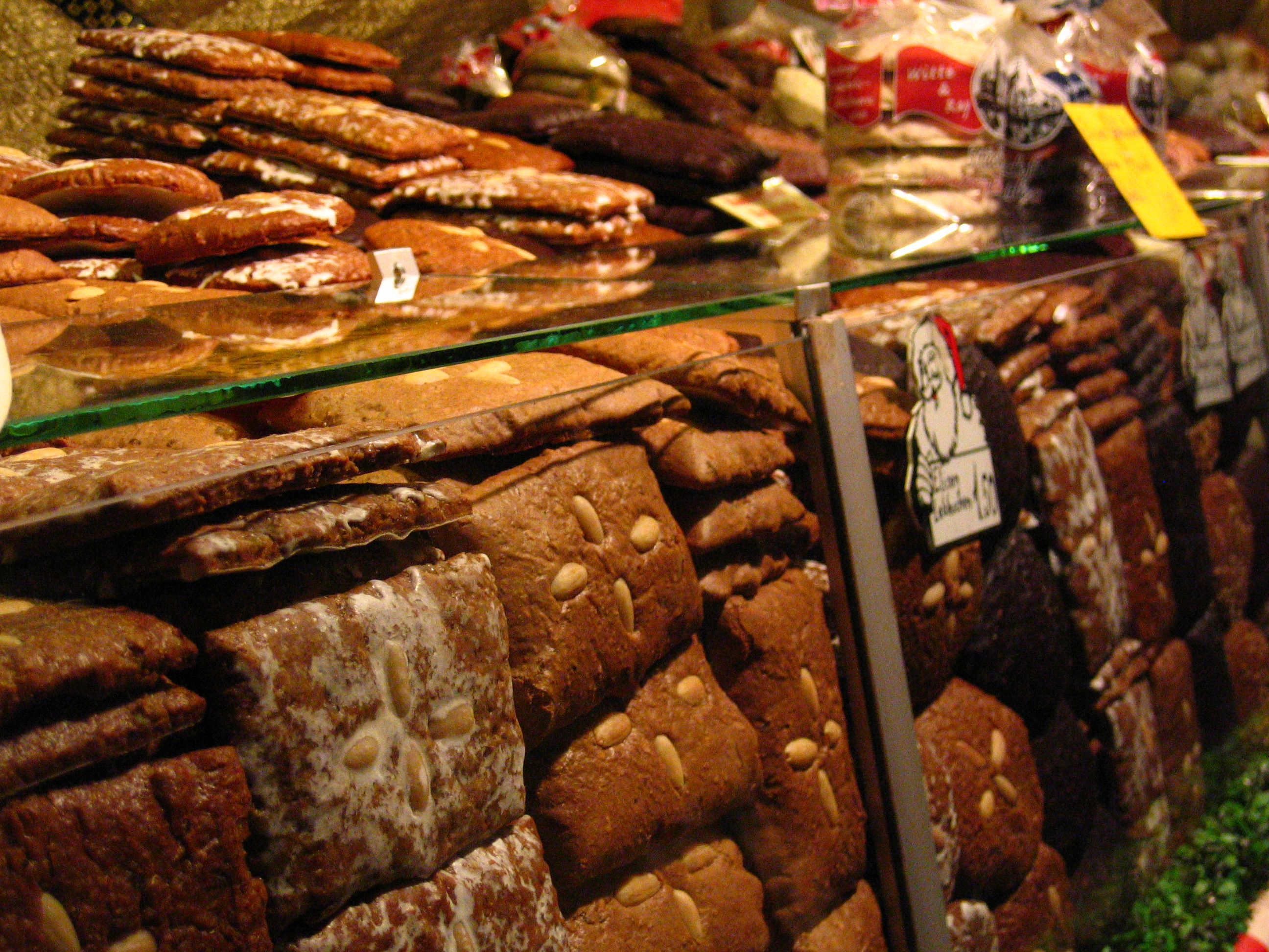 Lebkuchen at the Nuremberg Christmas Market